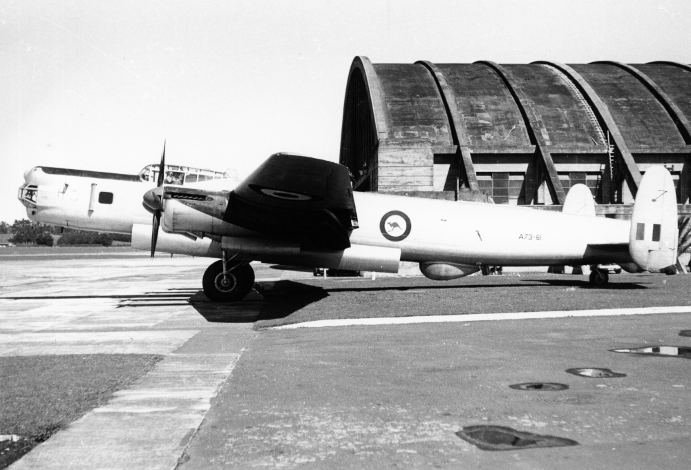 PictionID:40971675 - Title:Lincoln Avro Lincoln Mk.31 A73-61 10 Sqd RAAF Townsville c54 - Catalog:15_002681 - Filename:15_002681.tif - Image from the Charles Daniels Photo Collection album "British Aircraft."PLEASE TAG this image with any information you know about it, so that we can permanently store this data with the original image file in our Digital Asset Management System.SOURCE INSTITUTION: San Diego Air and Space Museum Archive